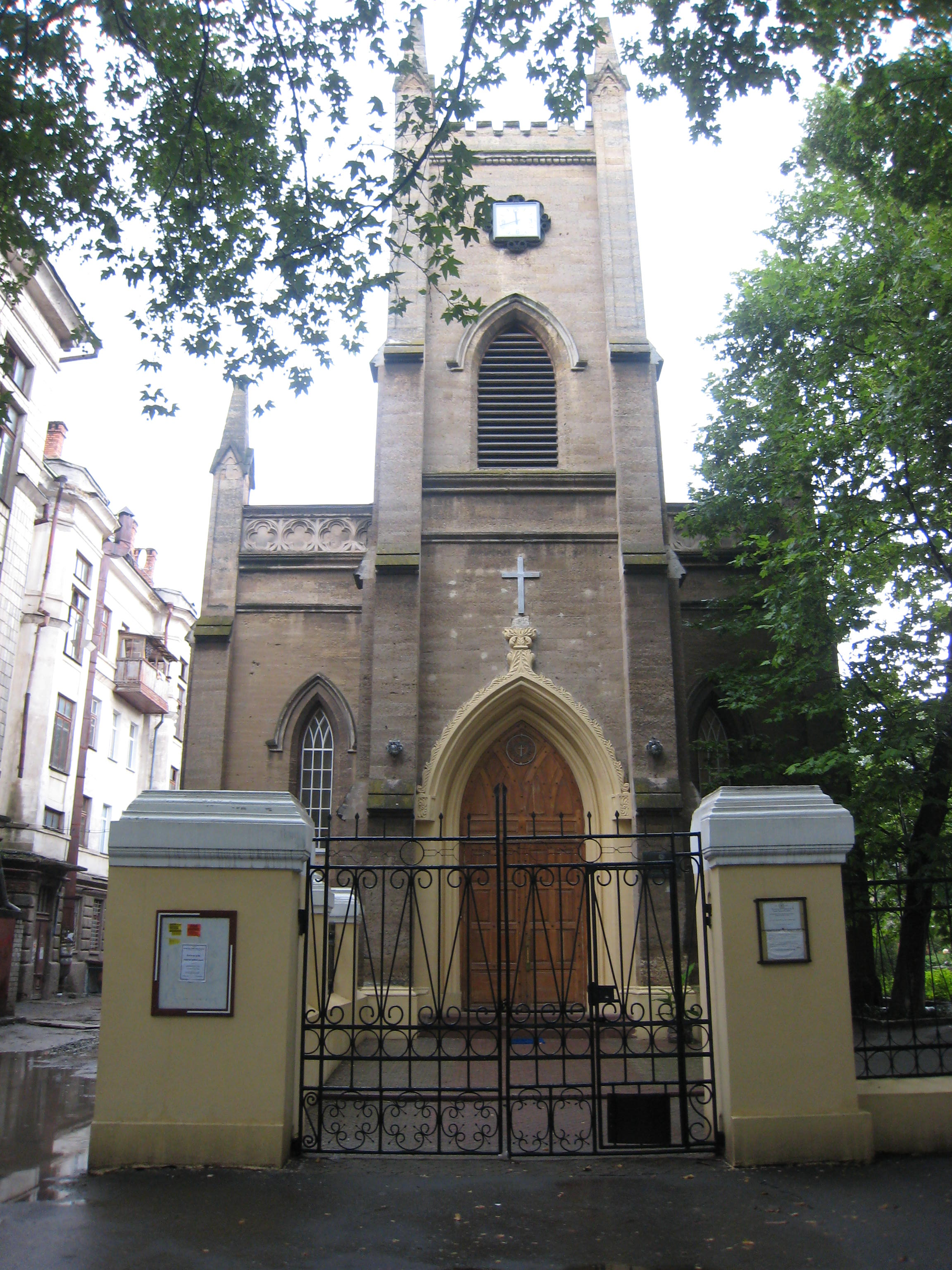 Lutheran Church of Christ the Redeemer